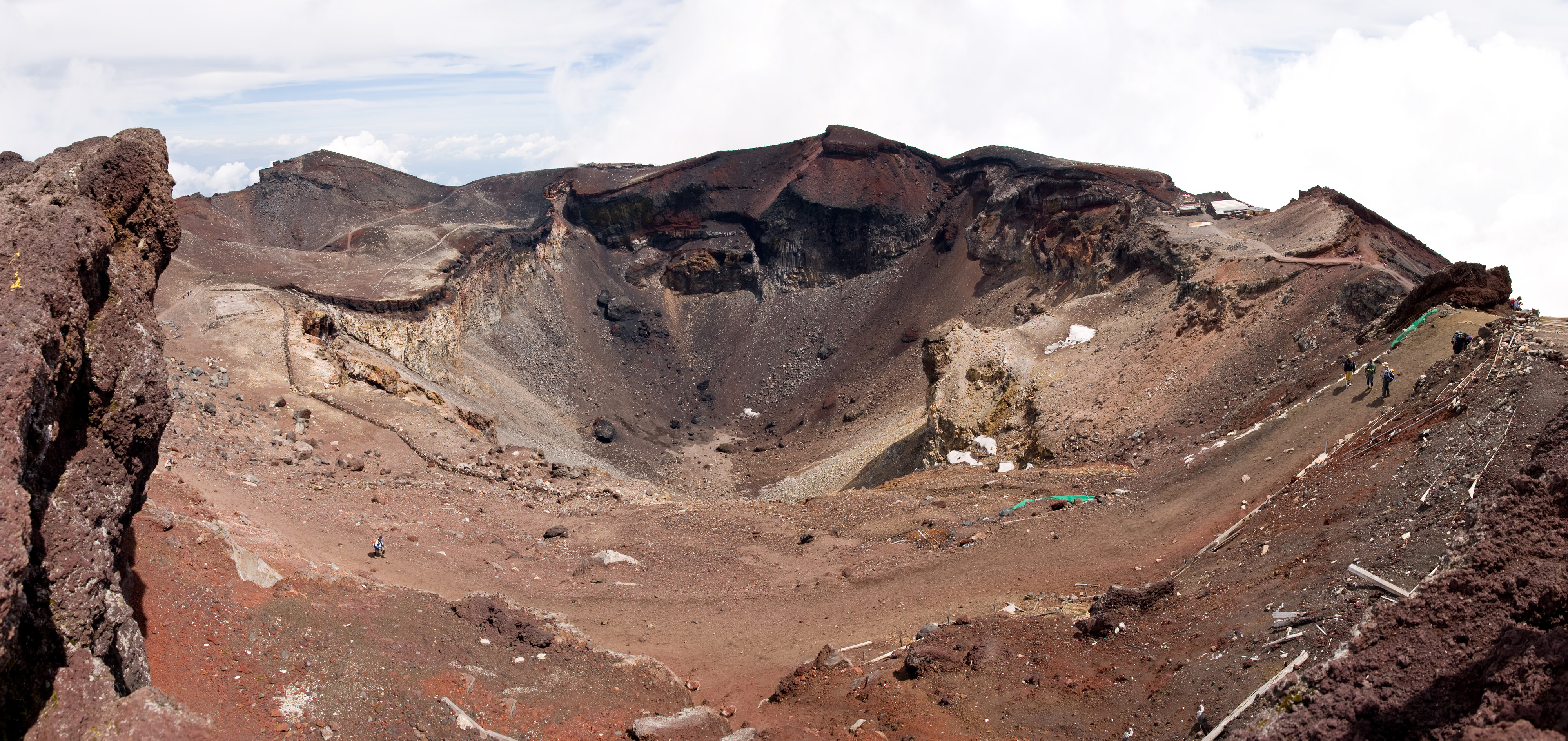 Hasshinpo (八神峰 はっしんぽう Hasshin-po ; it means Eight sacred peaks) of Mt.Fuji, Shizuoka and Yamanashi Prefectures, Honshu, Japan.